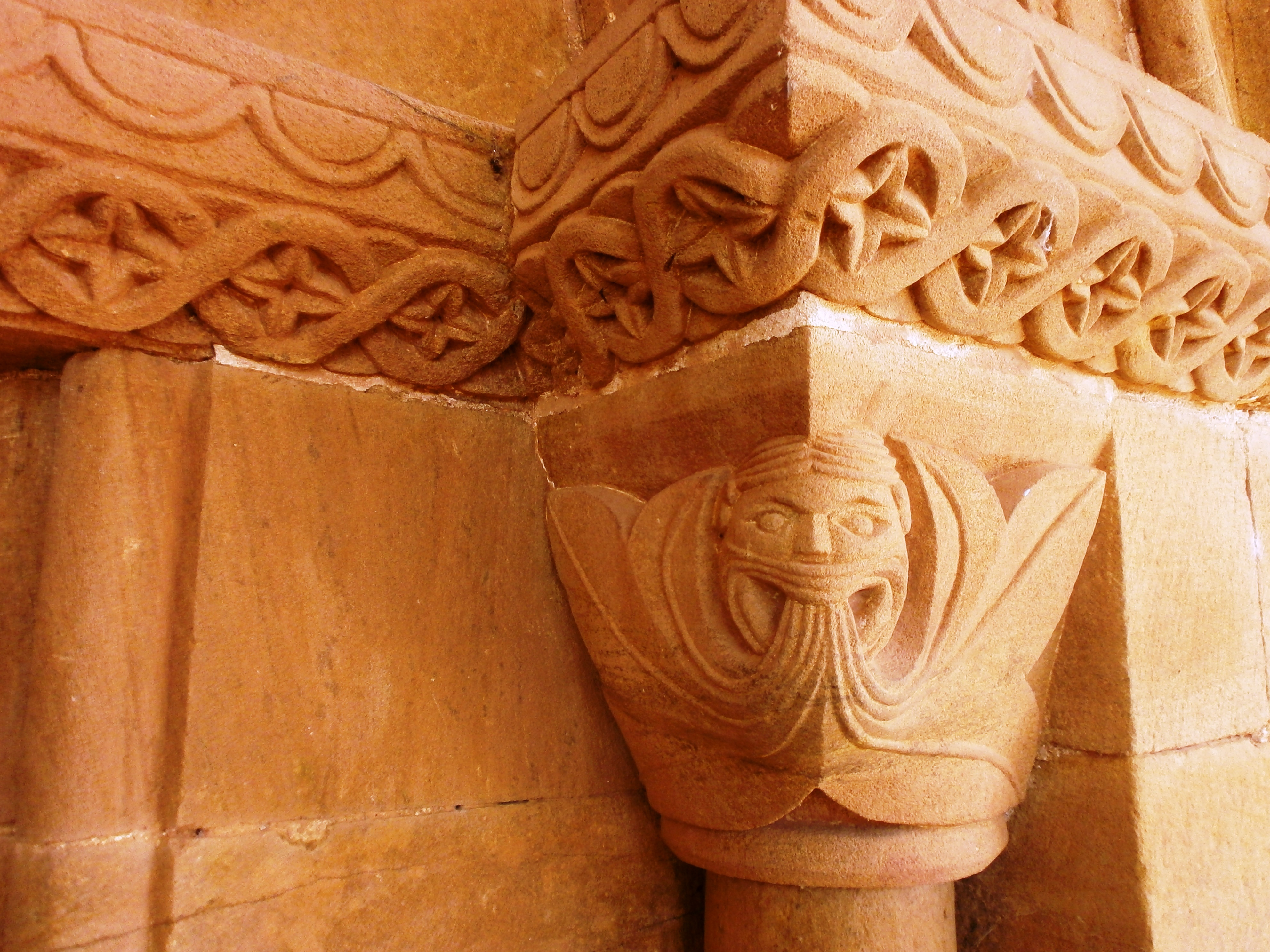 Lugás-captel-izq-pta-lateral al sur